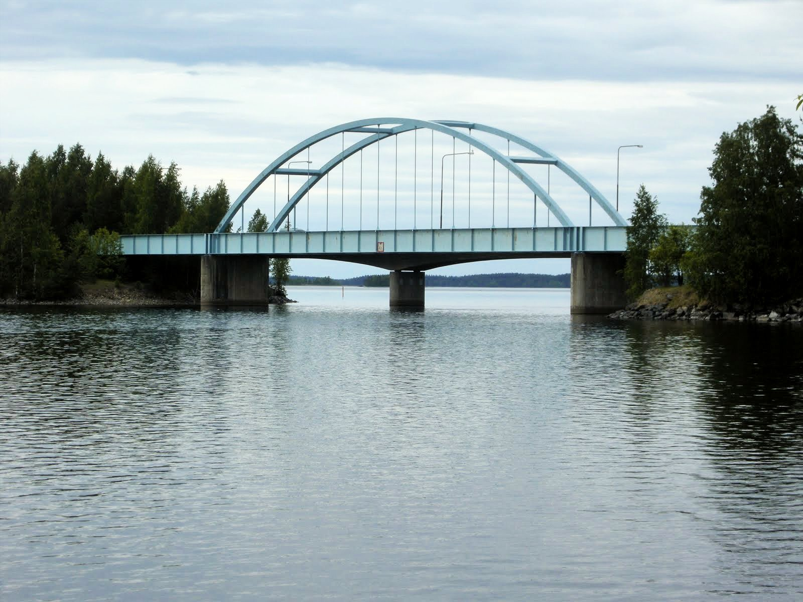 Punkasalmi railway bridge on Huutokoski–Parikkala railway in Punkaharju, Finland